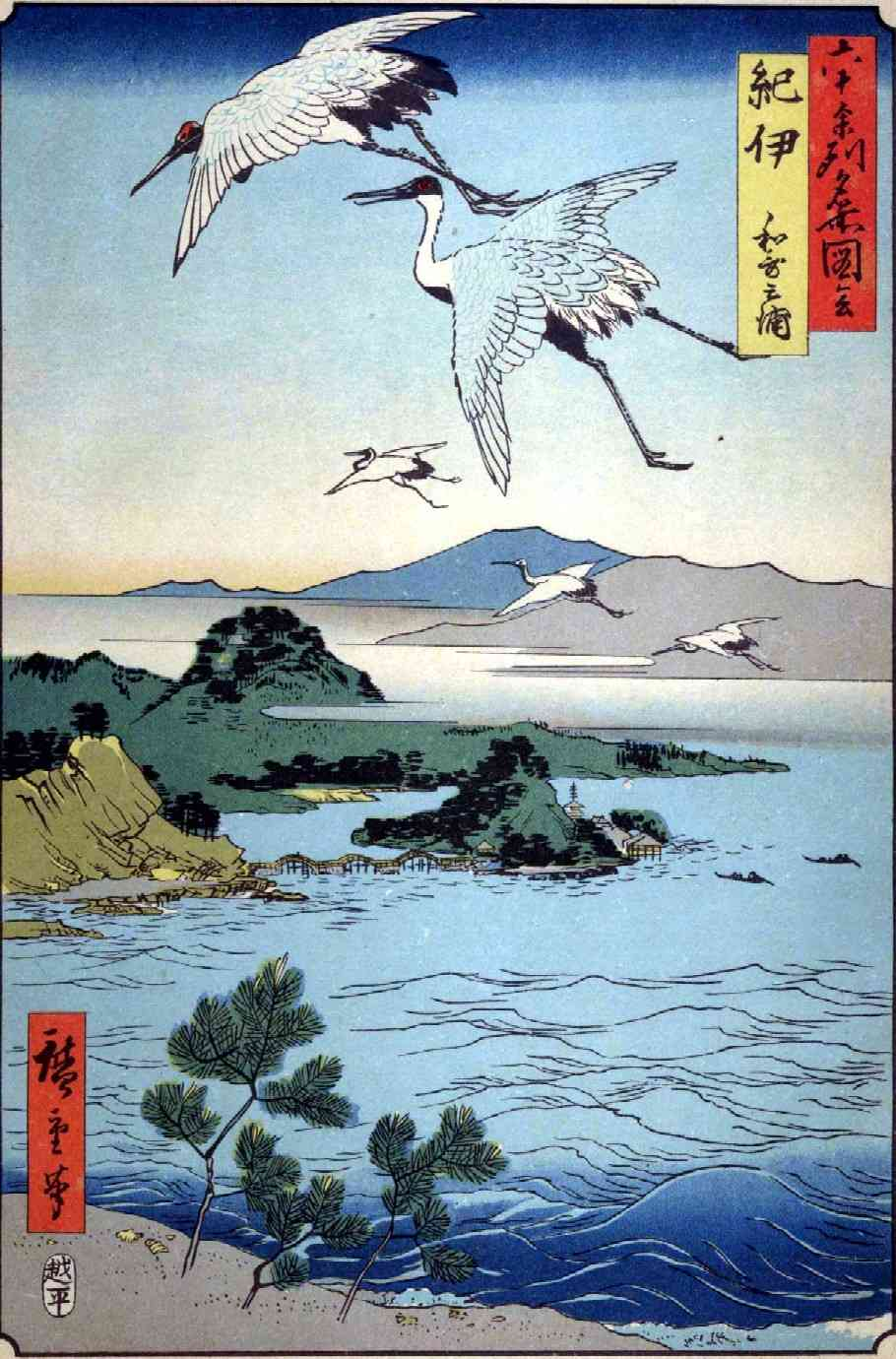 An ukiyo-e of Wakanoura.